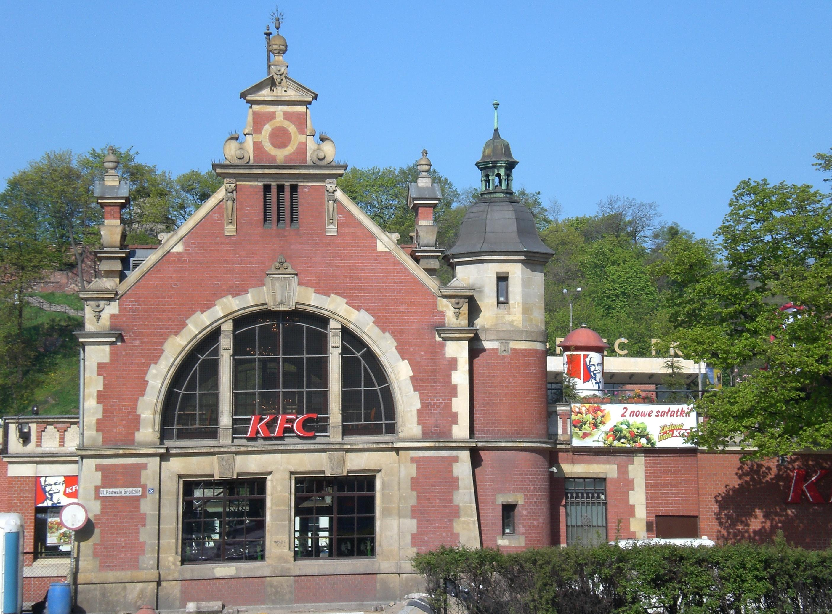 Gdańsk Główny, former building for suburban trains - now "KFC" fastfood restaurant